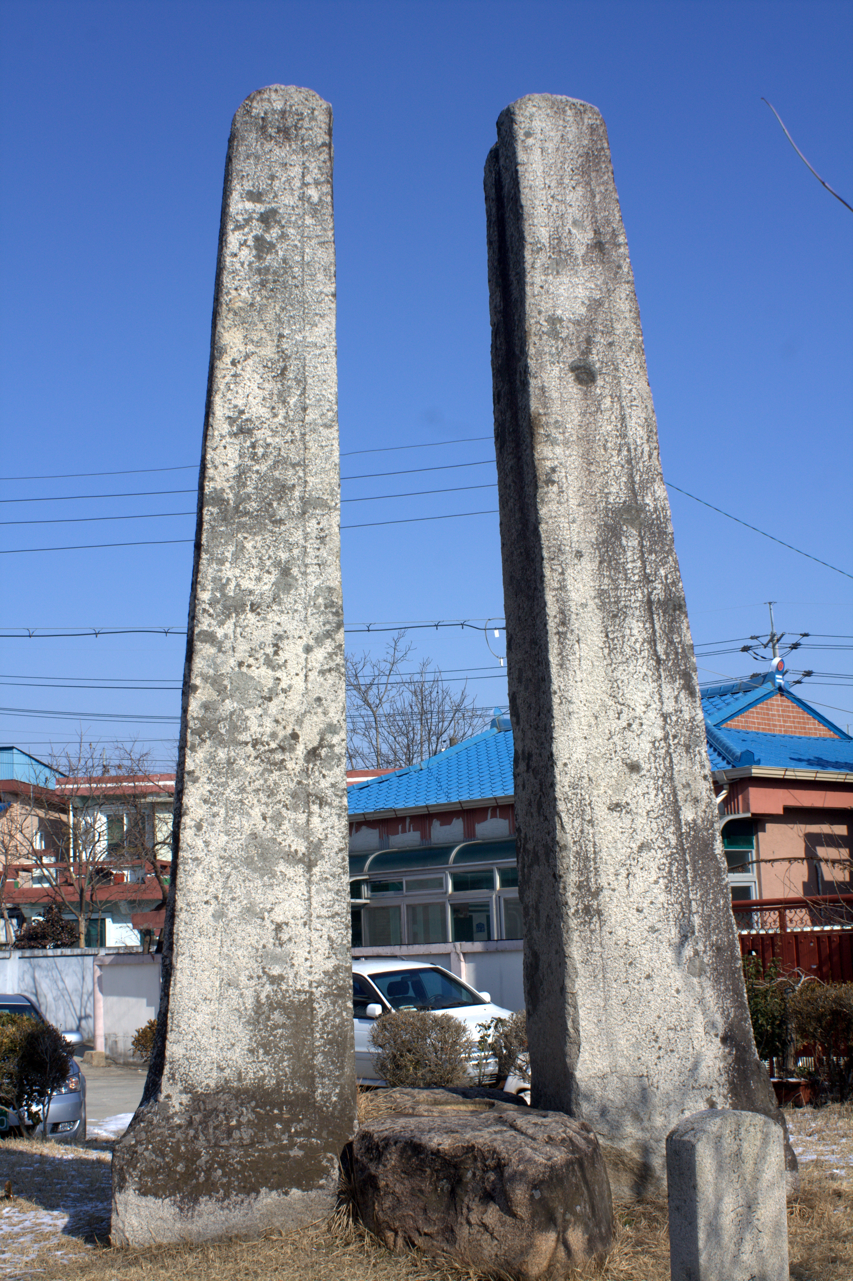 Dangganjiju at Ogwan-ri, Hongseong, Korea